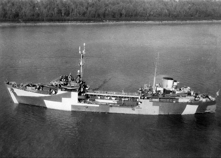 The U.S. Navy gasoline tanker USS Chehalis (AOG-48) at anchor, circa in 1944, while wearing Camouflage Measure 32, Design 3D.